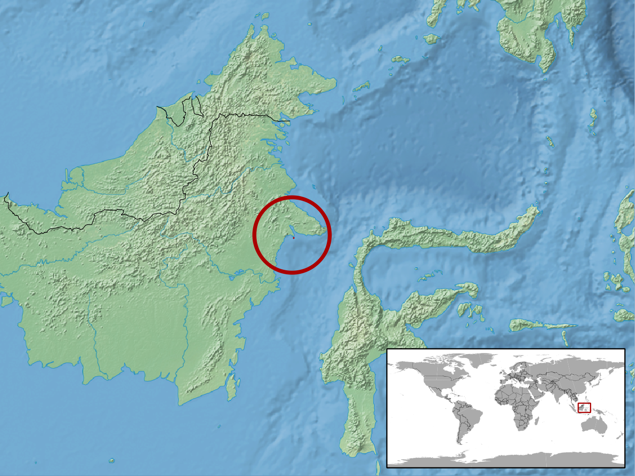 geographic distribution of Lipinia miangensis